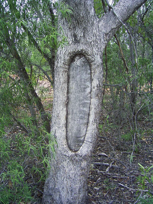 Scar Tree near Murray River annabranch west of Wahgunya, taken by Gary Vines June 2007